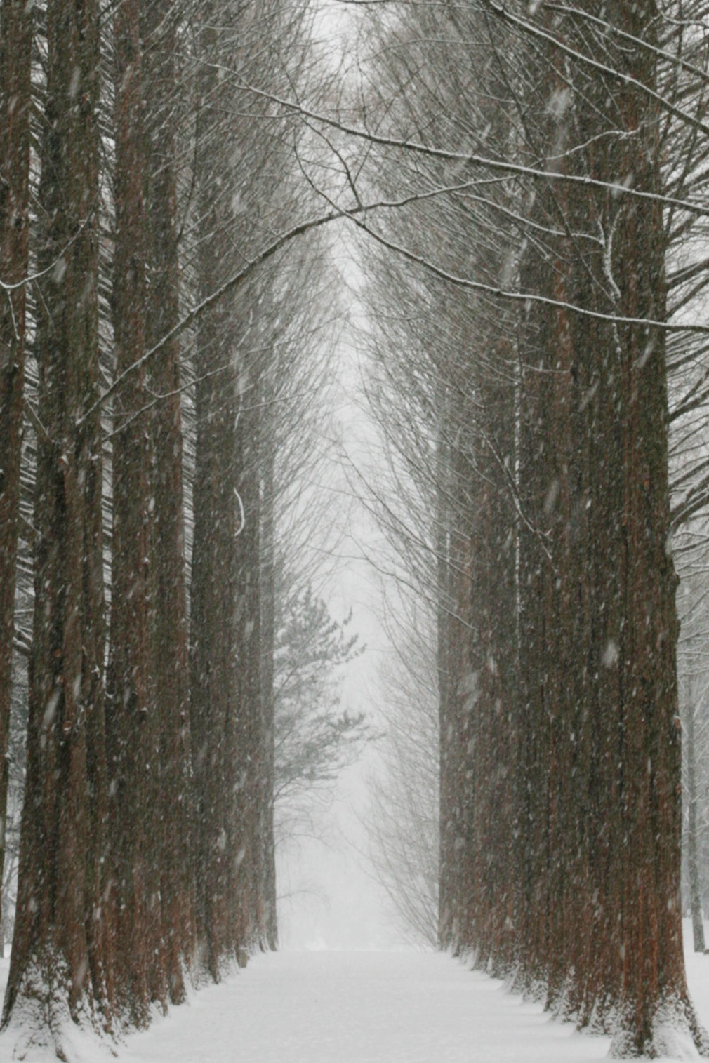 Nami island metasequoia